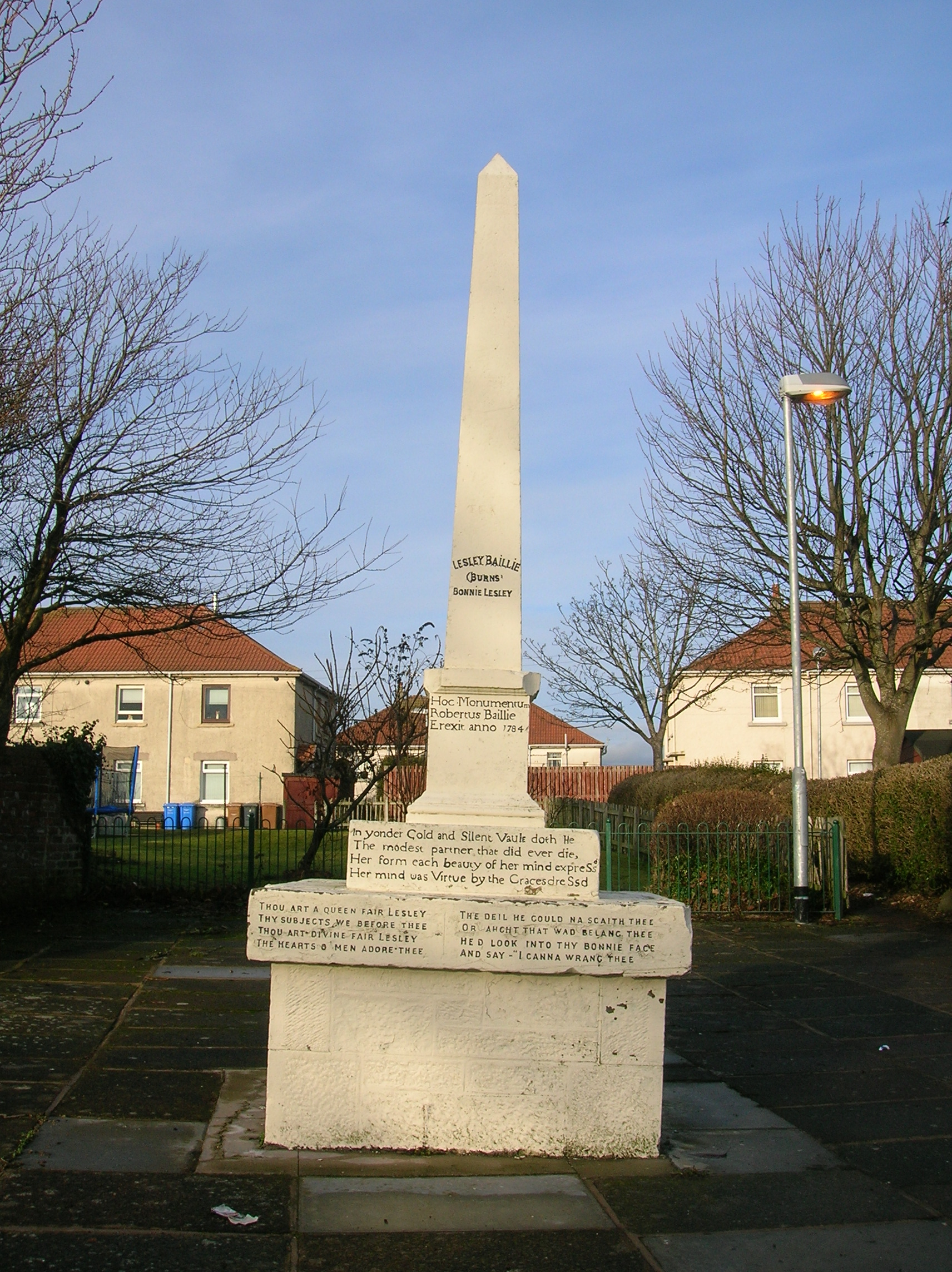 Memorial to Bonnie Lesley Baillie of Mayfield in Stevenston, North Ayrshire, Scotland. South facing side. Eulogised by the poet Robert Burns.